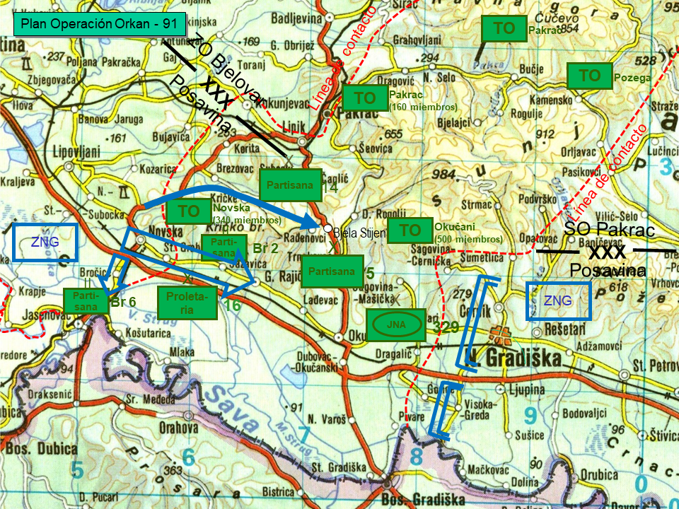 Sobre la base de Martinić Jerčić, Natko (2014-12-11). «Oslobodilačke operacije hrvatskih snaga u Zapadnoj Slavoniji u jesen i zimu 1991./1992. godine» [Operaciones de liberación de las fuerzas croatas en Eslavonia occidental en el otoño y el invierno de 1991/1992]. Tesis doctoral (en croata) (University of Zagreb. Department of Croatian Studies.). Consultado el 2019-08-24.